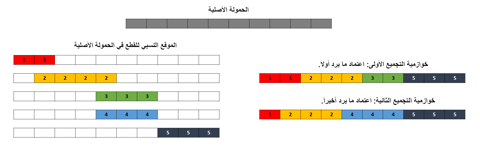 The chronological-based reassembly algorithms of overlapped-fragment, either by adopting what has first reached the destination or by adopting what has latterly reached it.